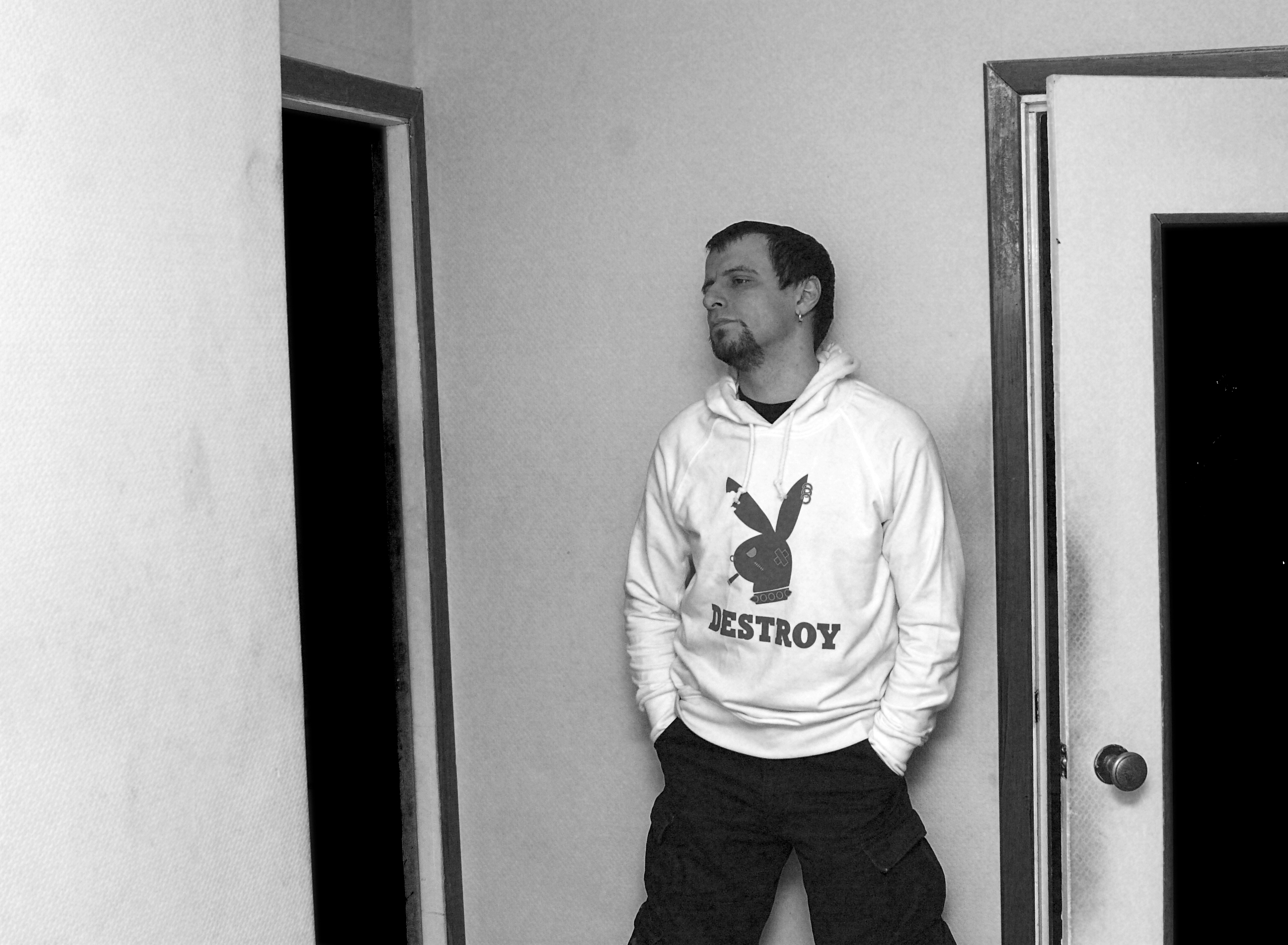 Portrait of Kirill Nemolyaev by Lev Platonov